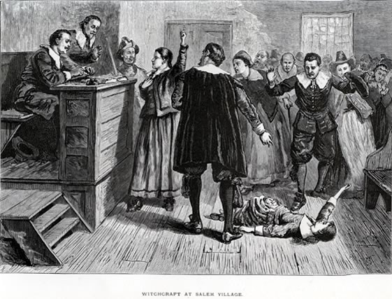 Pioneers in the Settlement of America